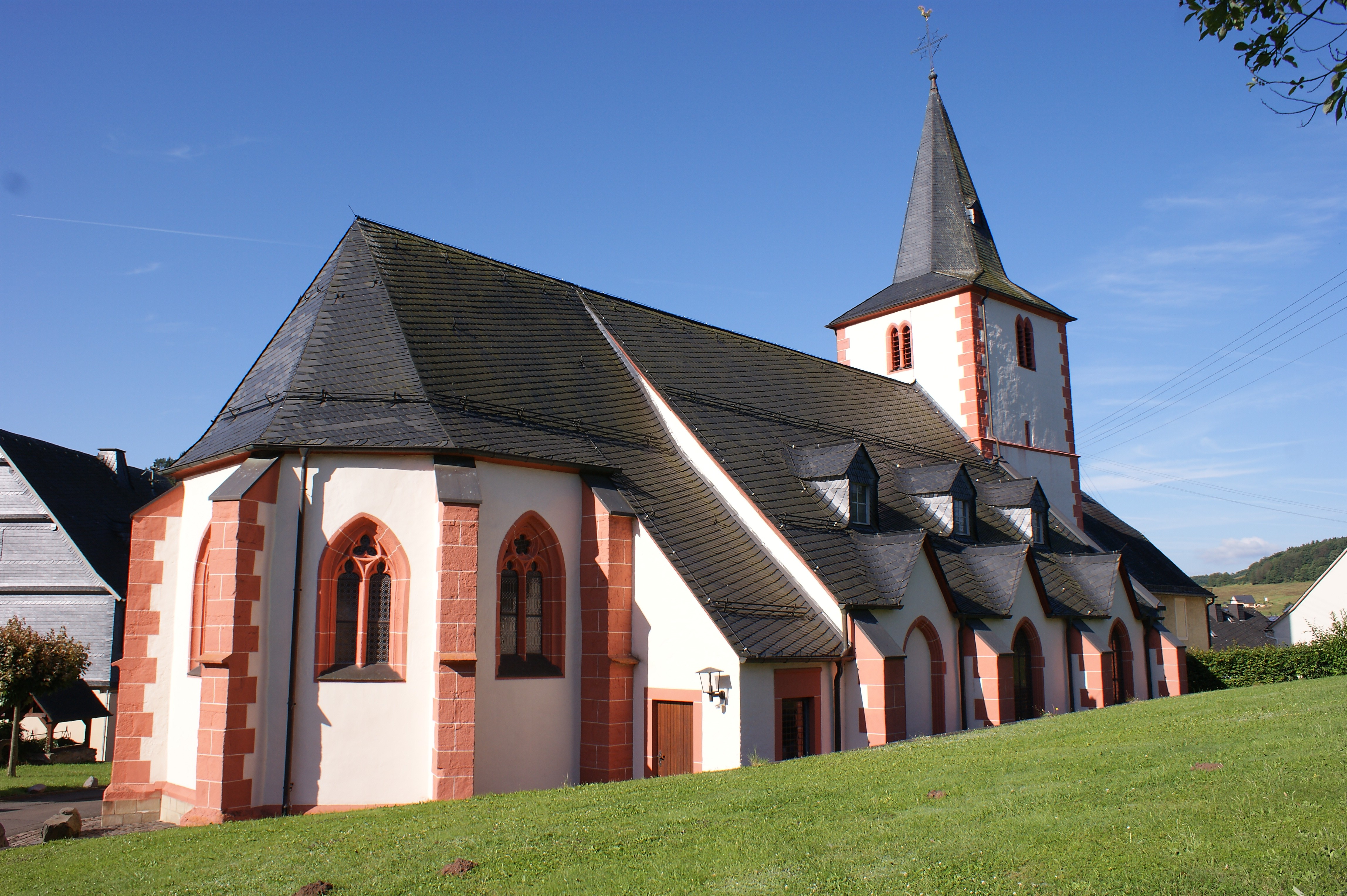 Church at Niederbrombach, Germany. View from the northeast.